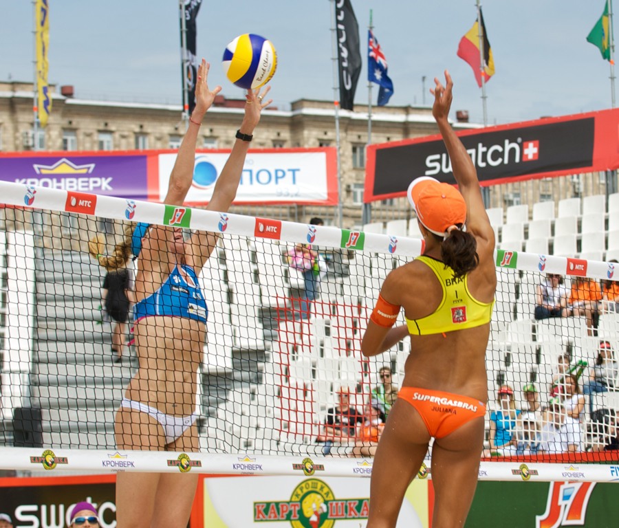 Grand Slam Moscow 2012